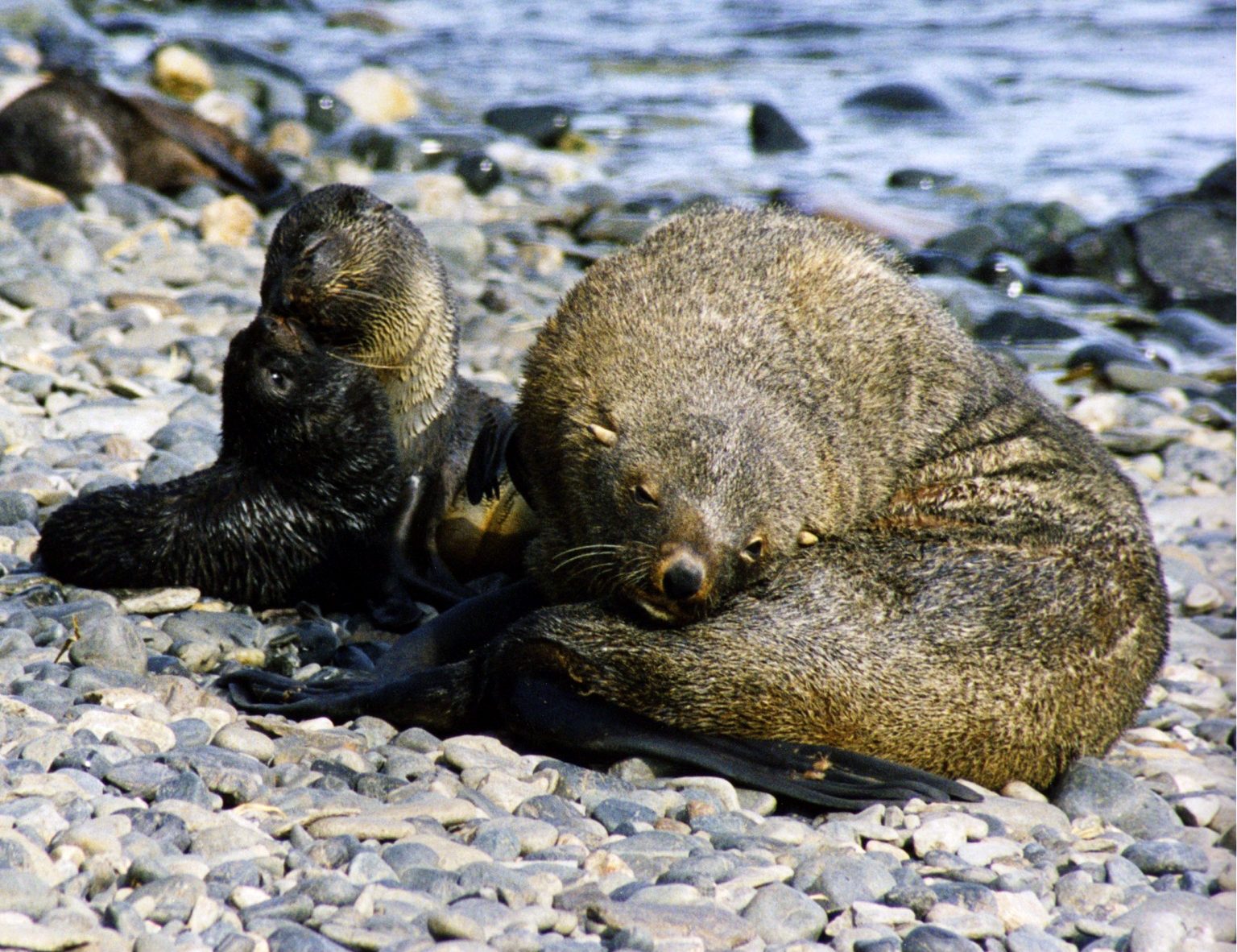 Antarctic Fur Seals at South Georgia Island The image was taken by Brocken Inaglory. The image is a scan of an old print.